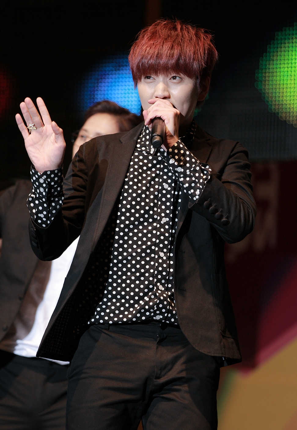 Sandeul at the Yongsan I-Park Mall em November 2, 2013.